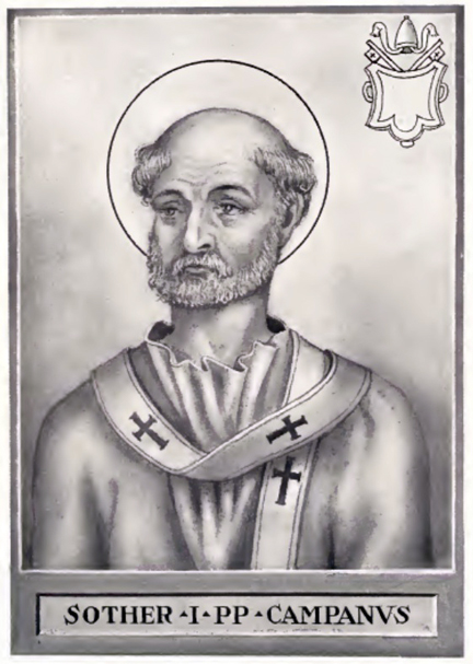 This illustration is from The Lives and Times of the Popes by Chevalier Artaud de Montor, New York: The Catholic Publication Society of America, 1911. It was originally published in 1842.